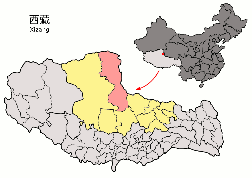 Location of Shuanghu Special District (pink) and Nagchu Prefecture (yellow) within Tibet (Xizang) autonomous region of China